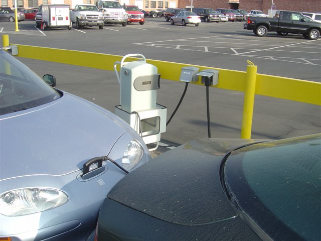 General Motors EV1 electric car recharging